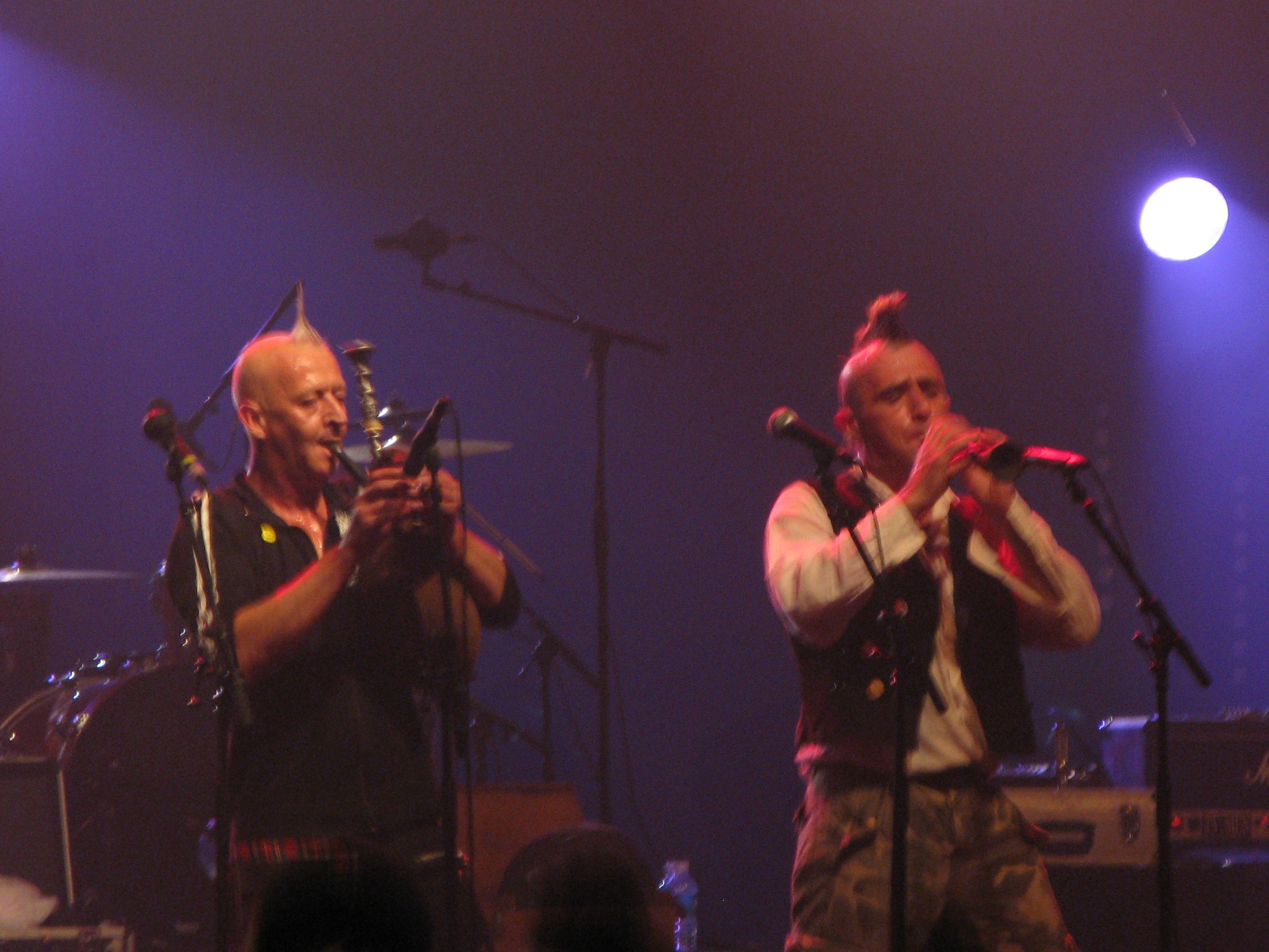 Celtic punk groupe "Les Ramoneurs de Menhirs" performing during the Festival Interceltic de Lorient 2009 held in Lorient, France.